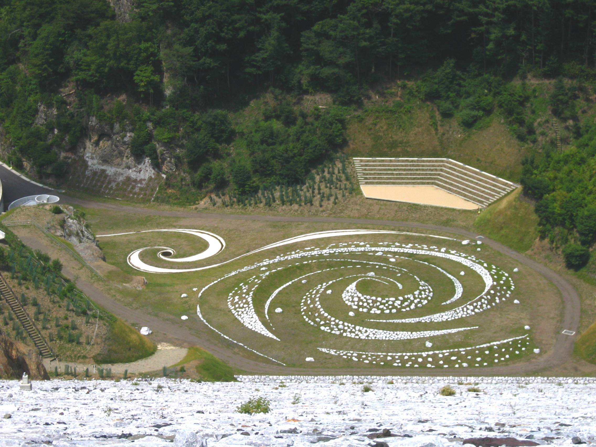 Minamiaiki Dam Uzumaku hiroba park.